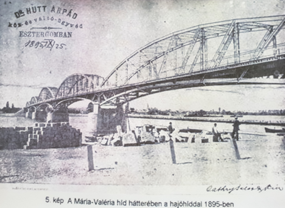 The_newly_built_Maria_Valeria_bridge_at_Párkány,_1895._In_the_background_the_old_pontoon_bridgelabel QS:Len,"The_newly_built_Maria_Valeria_bridge_at_Párkány,_1895._In_the_background_the_old_pontoon_bridge"label QS:Lhu,"Az újonnan elkészült Mária Valéria híd, 1895. A háttérben a régi hajóhíd"